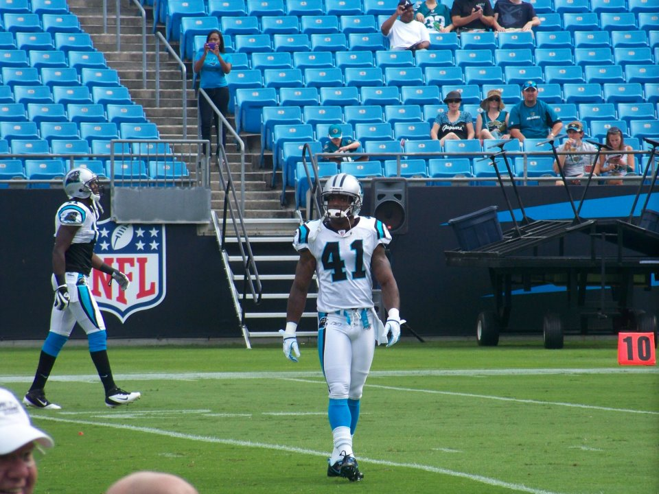 Captain Munnerlyn (41) warming up before a game against the Jacksonville Jaguars on Sept 25, 2011.